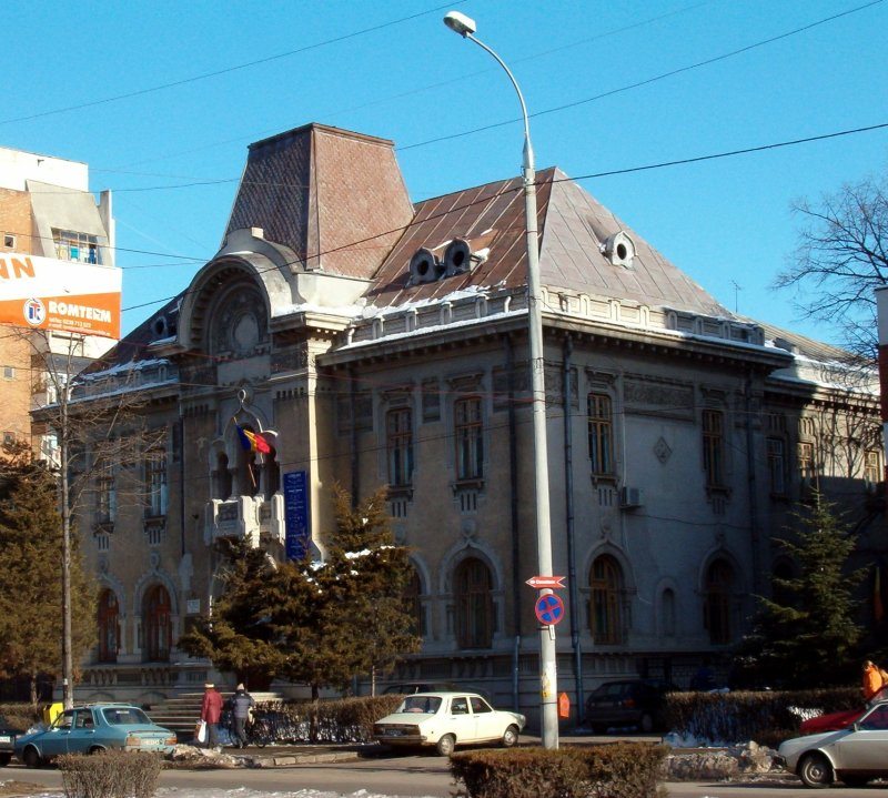 The Vasile Voiculescu public library, Buzău, România